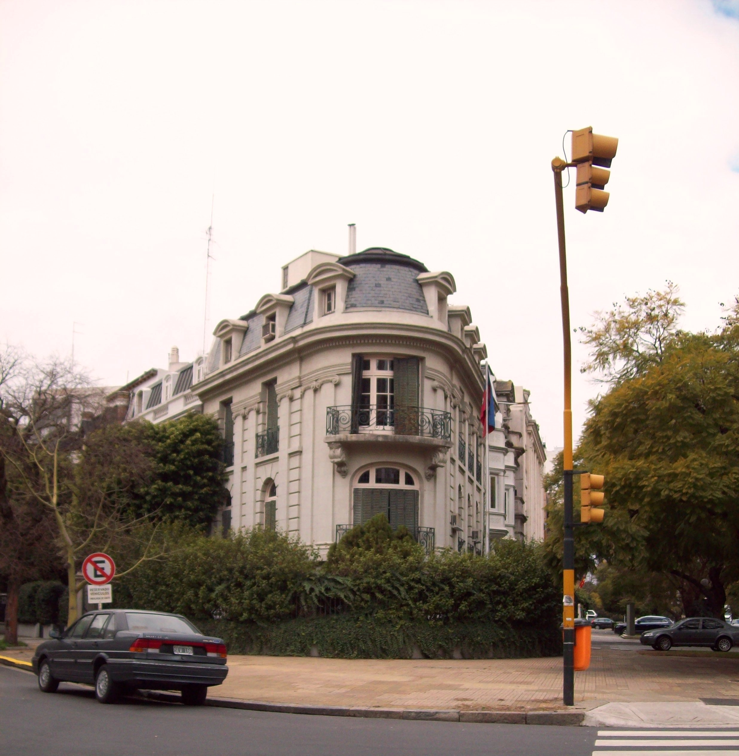 Embassy of Haiti, Palermo Chico, Buenos Aires